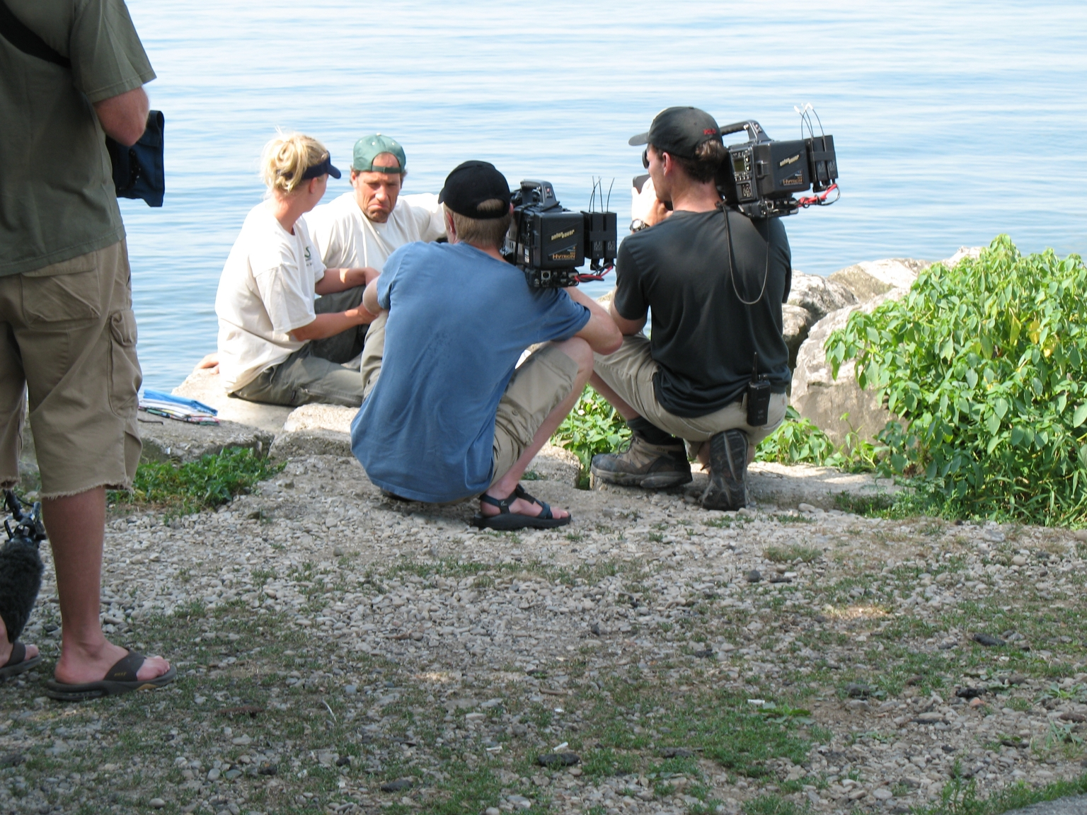 (L-R in photo: Kristin Stanford, Mike Rowe, Troy Paff, Doug Glover). Photo taken on August 10, 2006 filming an episode of Dirty Jobs titled Snake Researcher.